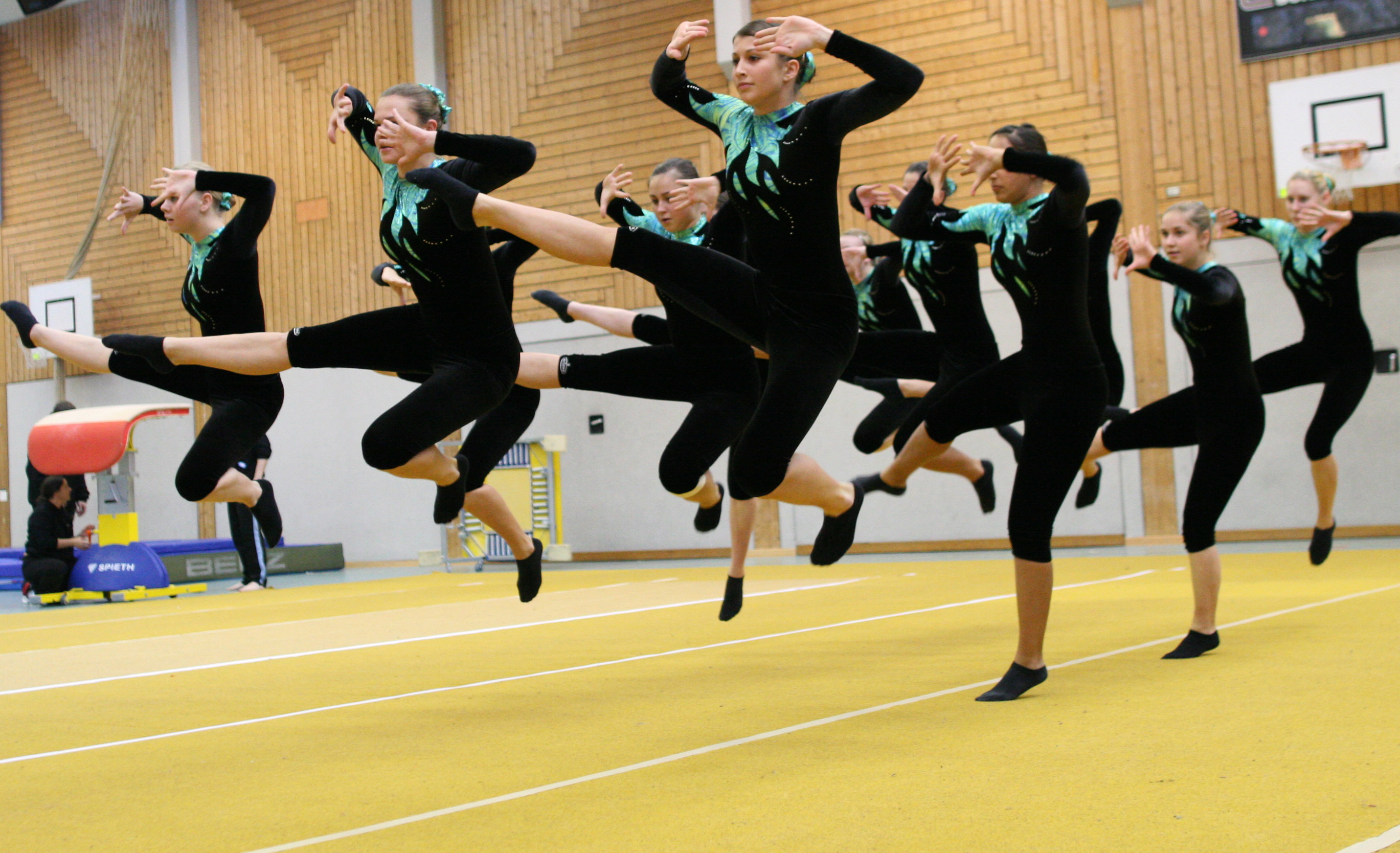 Gymnastics-Competition "Team-Turnen" in Wolfurt/Vorarlberg/Austria. Gymnastics-Club Turnerschaft Höchst